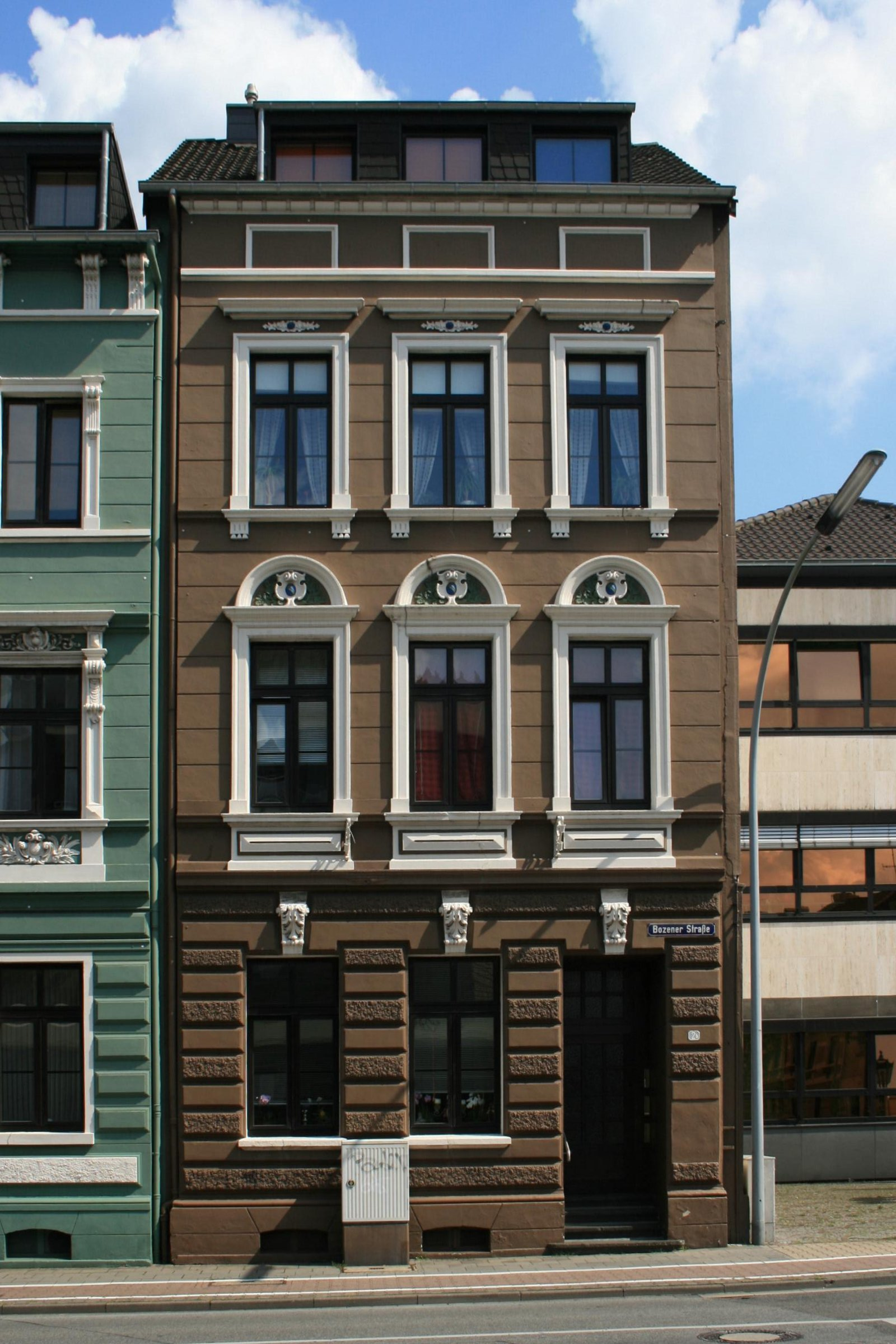 Cultural heritage monument No. B 064 in Mönchengladbach